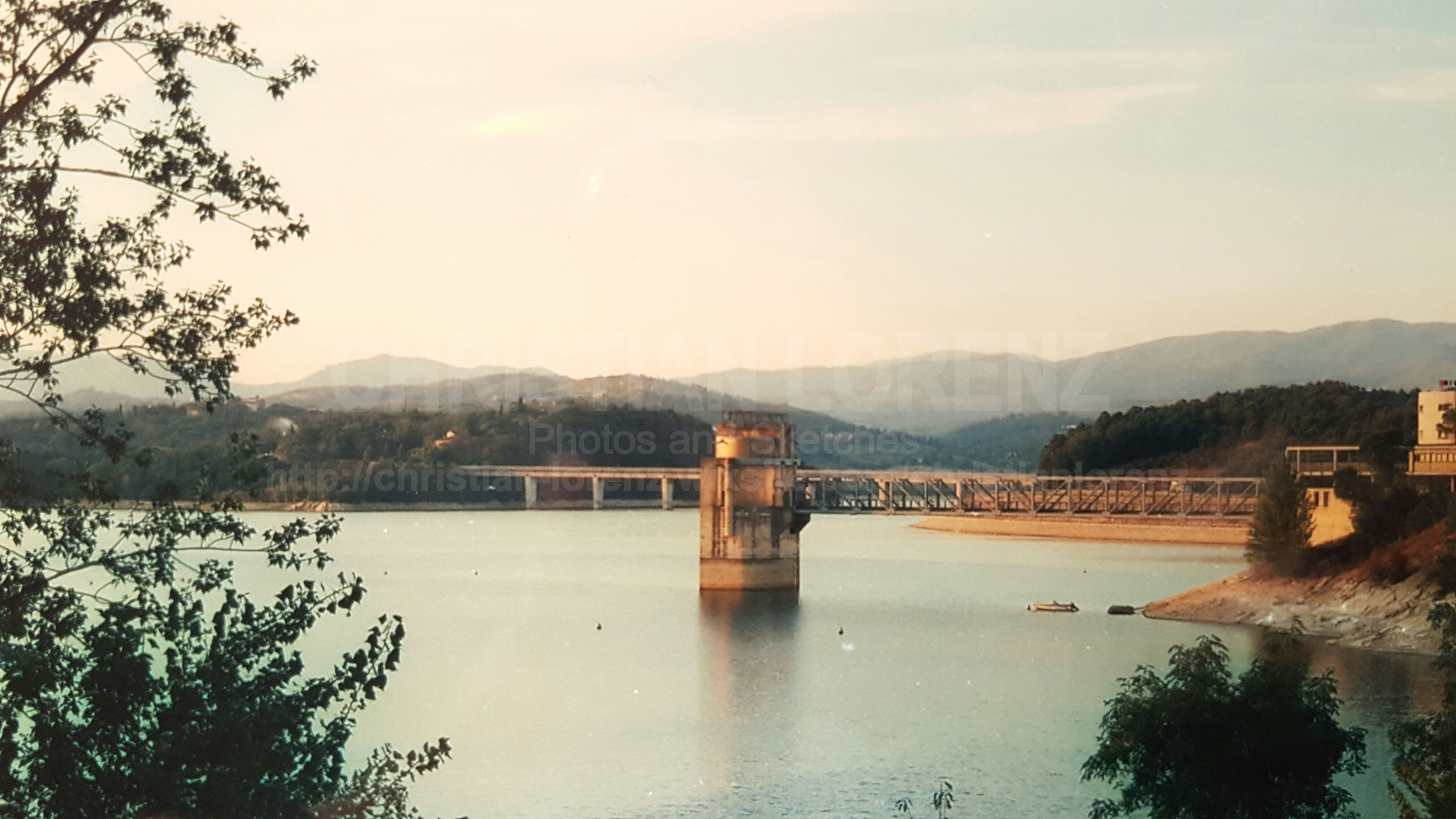 Torre idraulica e diga di Bilancino, Barberino di Mugello.